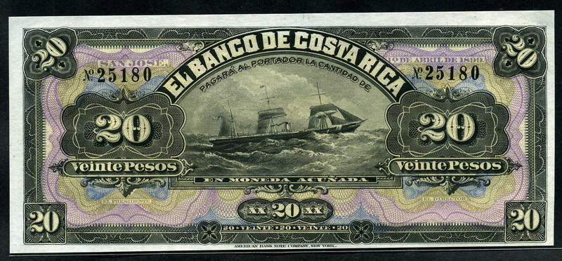 Costa-Rica 20 Pesos banknote of 1899, Printed by American Bank Note Company, New York.